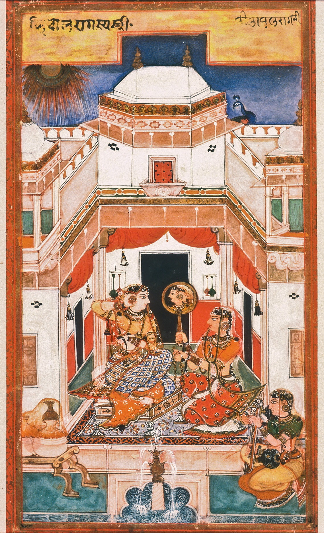 Shaykh Husayn. Vilaval Ragini Folio from the Chunar Ragamala, Bundi, dated February 24, 1591, Metropolitan museum